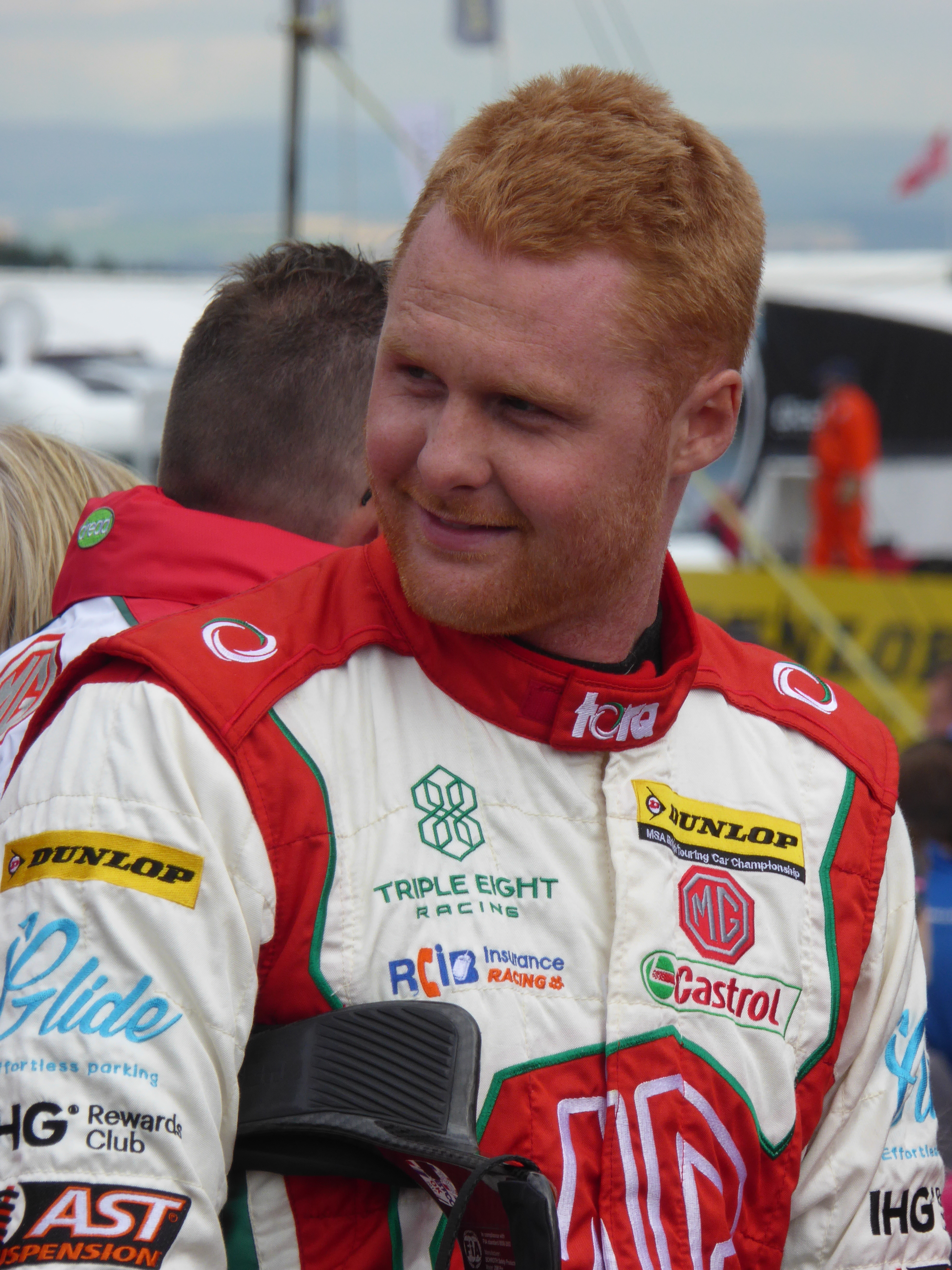 Josh Cook (MG Racing RCIB Insurance), at the Knockhill round of the 2017 British Touring Car Championship.